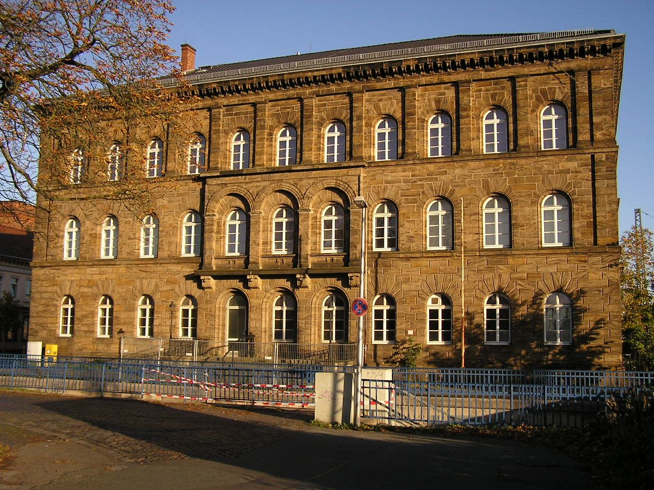 Old post authority in Minden, North Rhine-Westphalia, Germany.